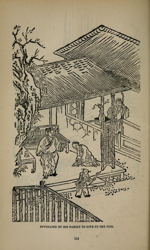 Illustration from a book from The Anti-Opium League